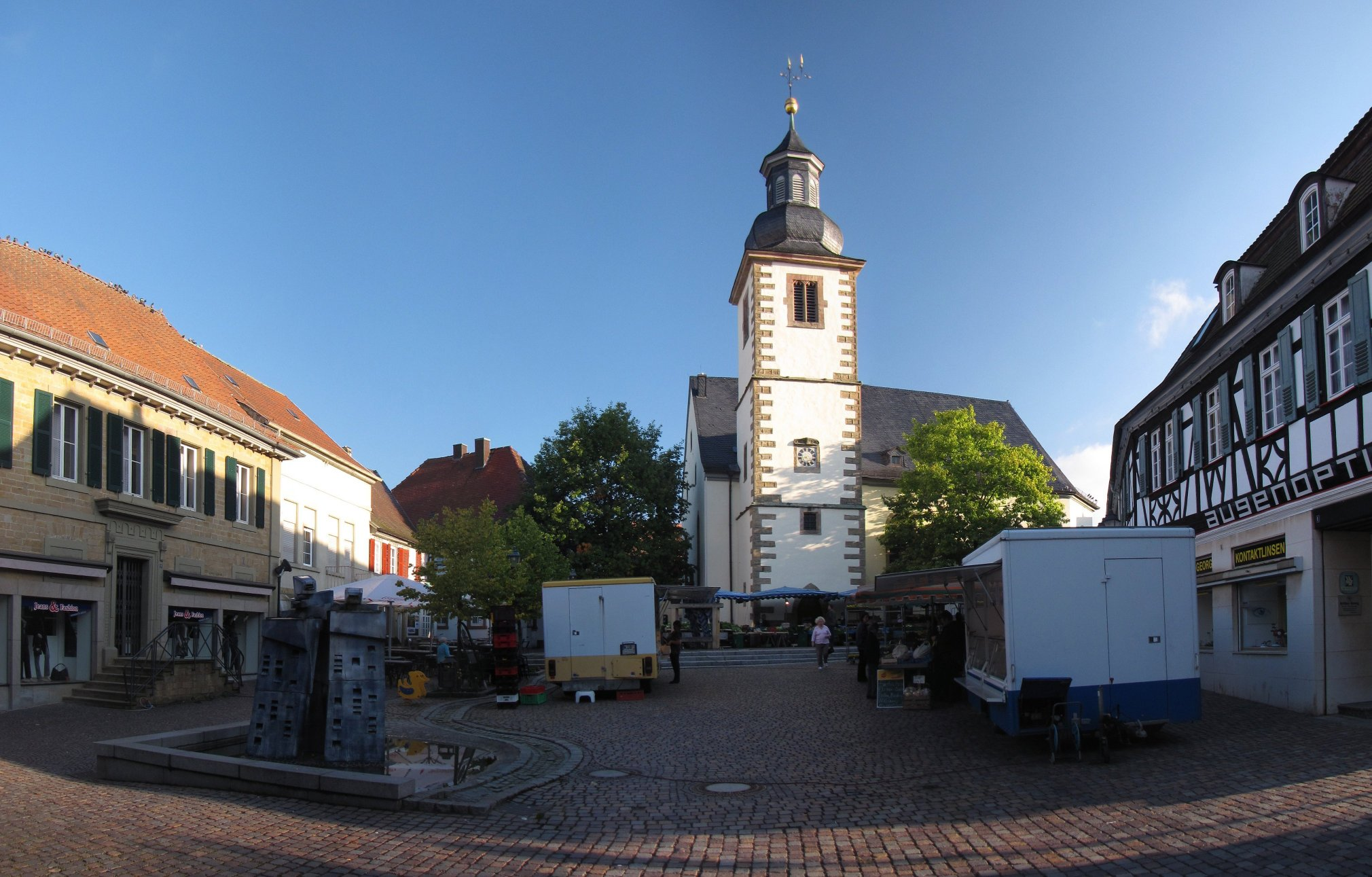 Rockenhausen